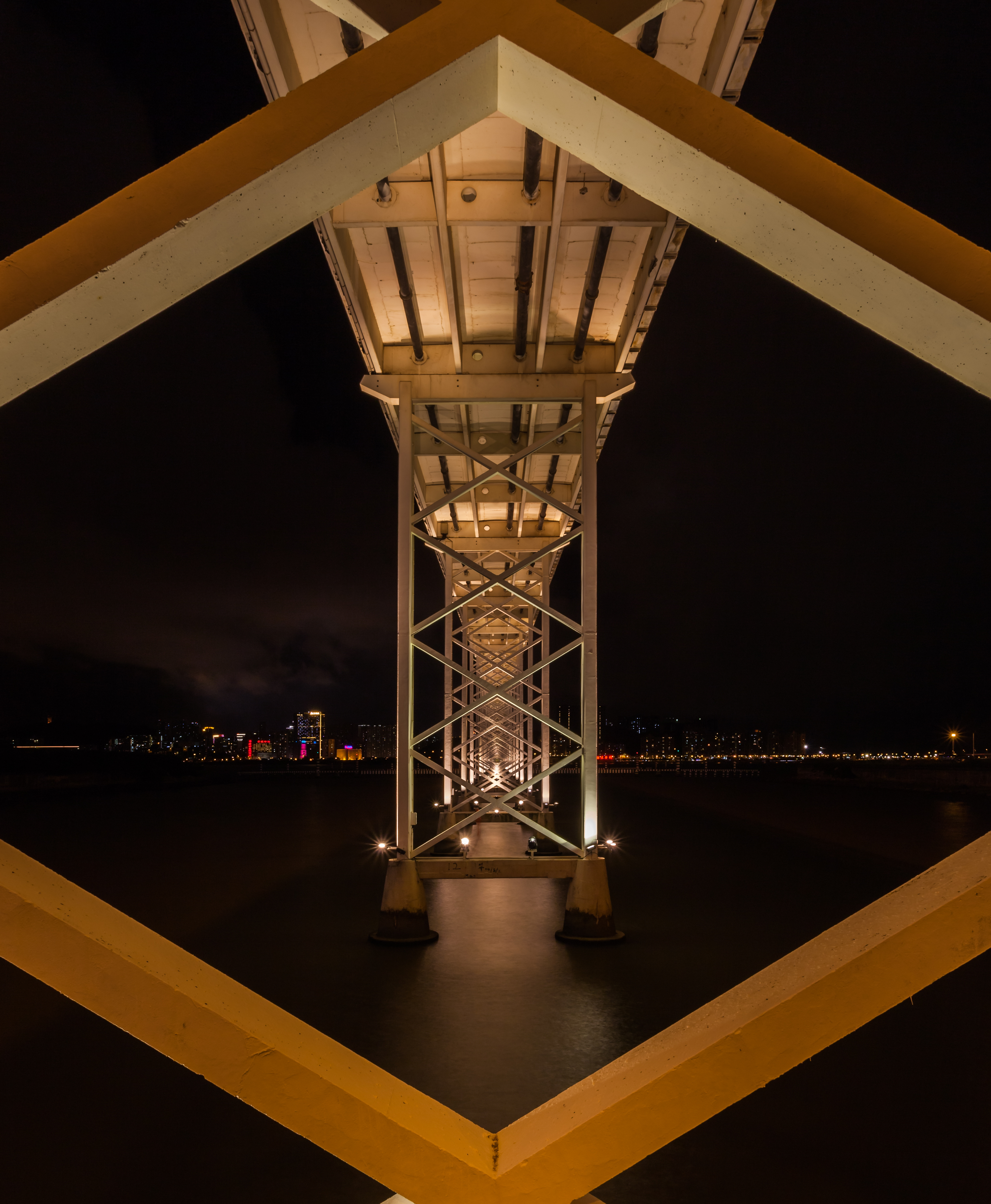 Bridge Gobernador Nobre de Carvalho, Macau